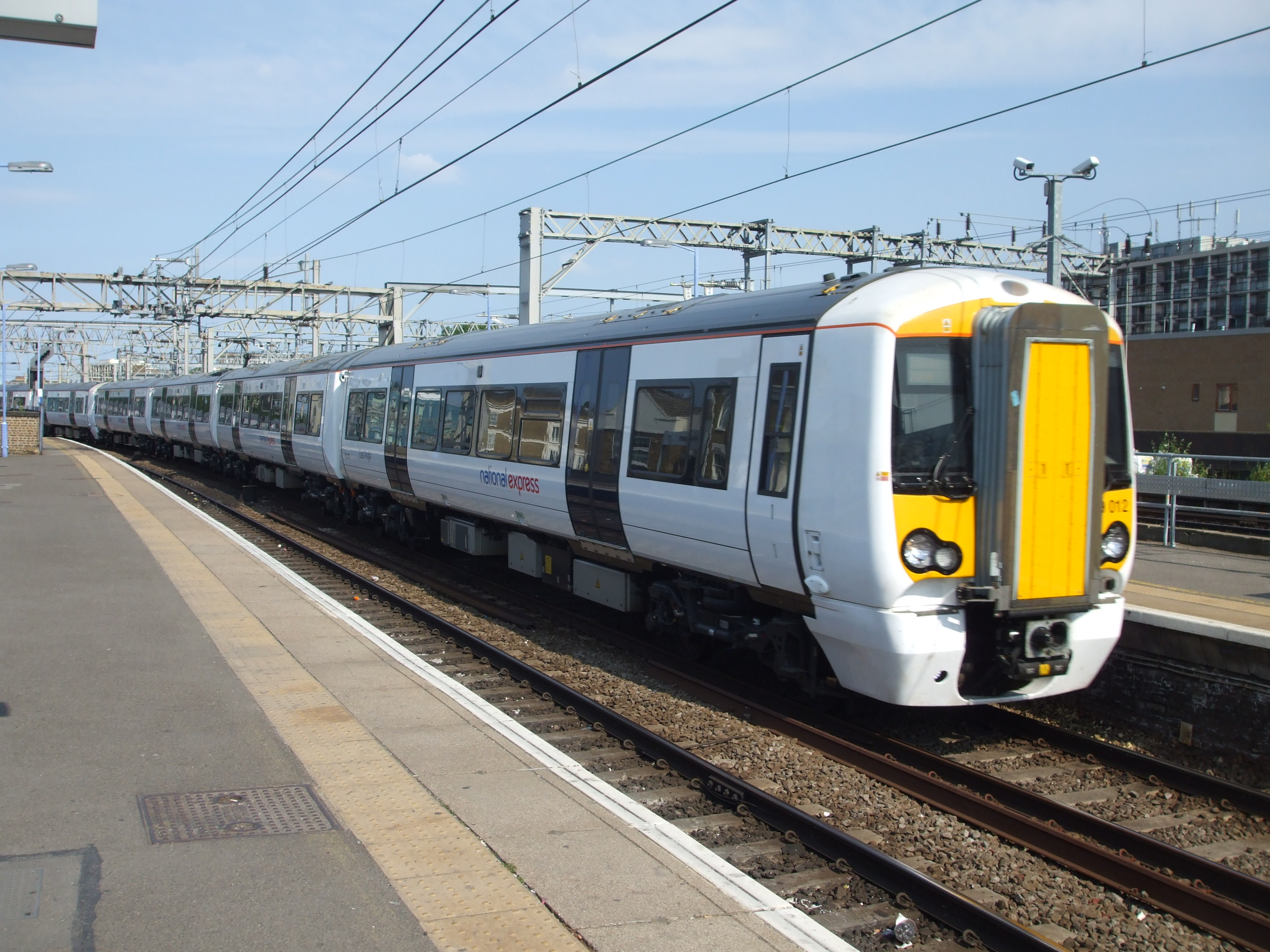 Class 379 unit 379012 leads an 8-car Stansted Express service passing fast London-bound through Bethnal Green.